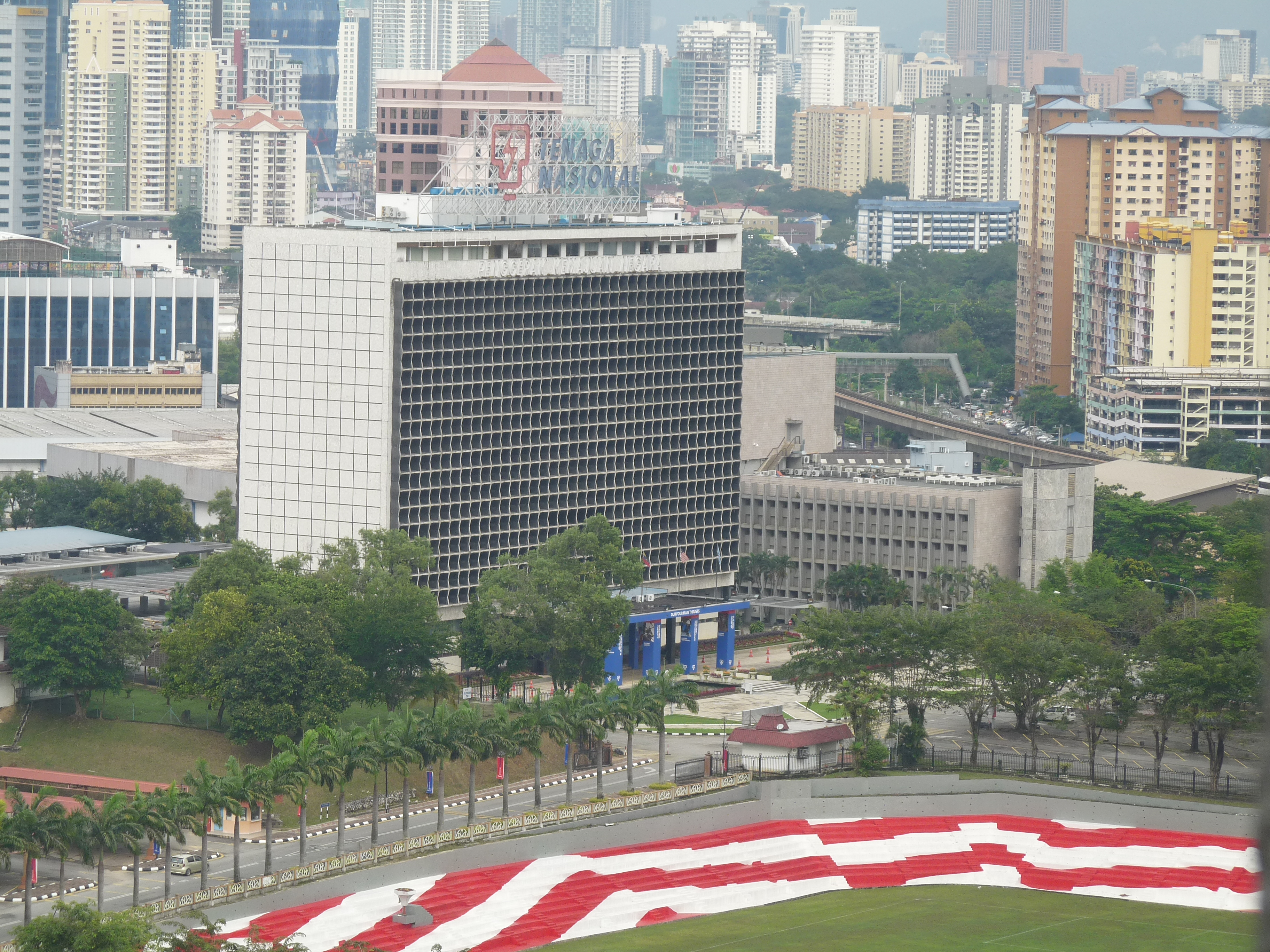 Tenaga Nasional Berhad building in Bangsar as seen from Wisma R&D Universiti Malaya, Kuala Lumpur